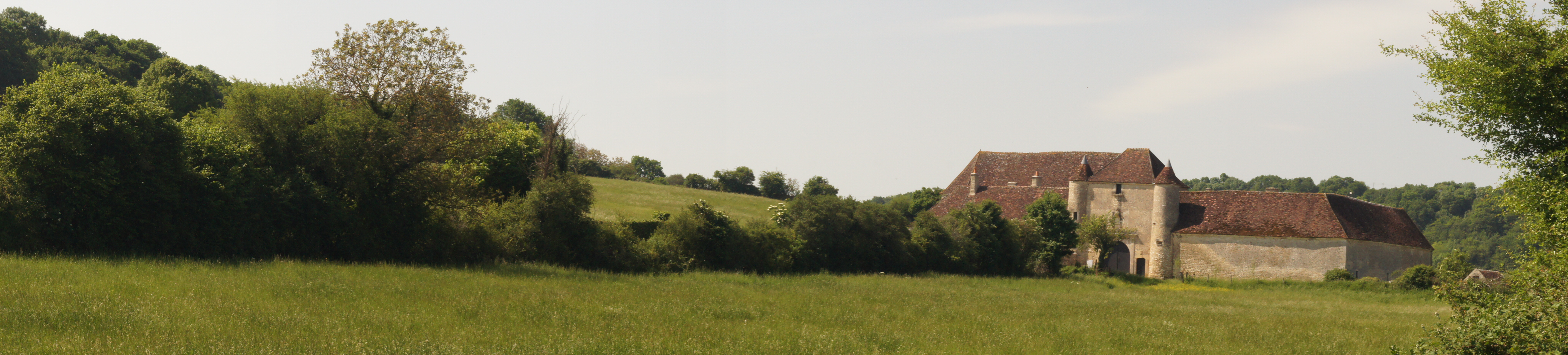 Basseville farm in Surgy, Nièvre, France